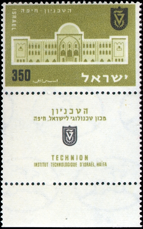 Israeli postage stamp depicting the front of the old Technion building in Haifa and the university emblem, issued towad 30th anniversary of the institution - 350 mil Inscription on tab: "Technion - Israel Institute of Technology, Haifa".